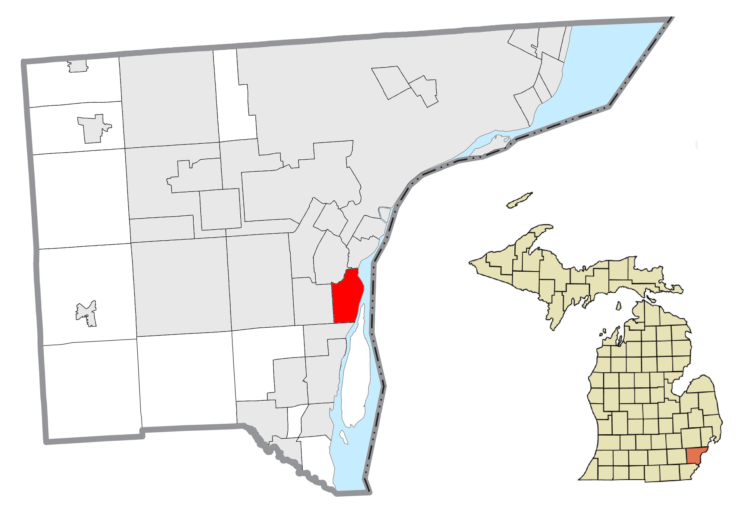 Wyandotte, MI